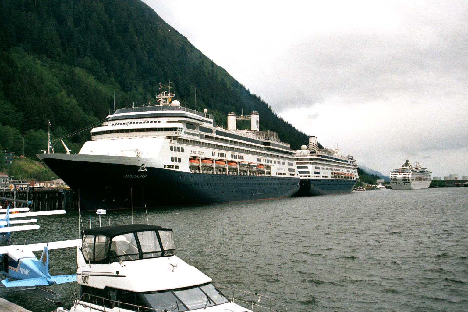 Cruise ships in Juneau, Alaska. Photograph by Robert A. Estremo, copyright 2002.